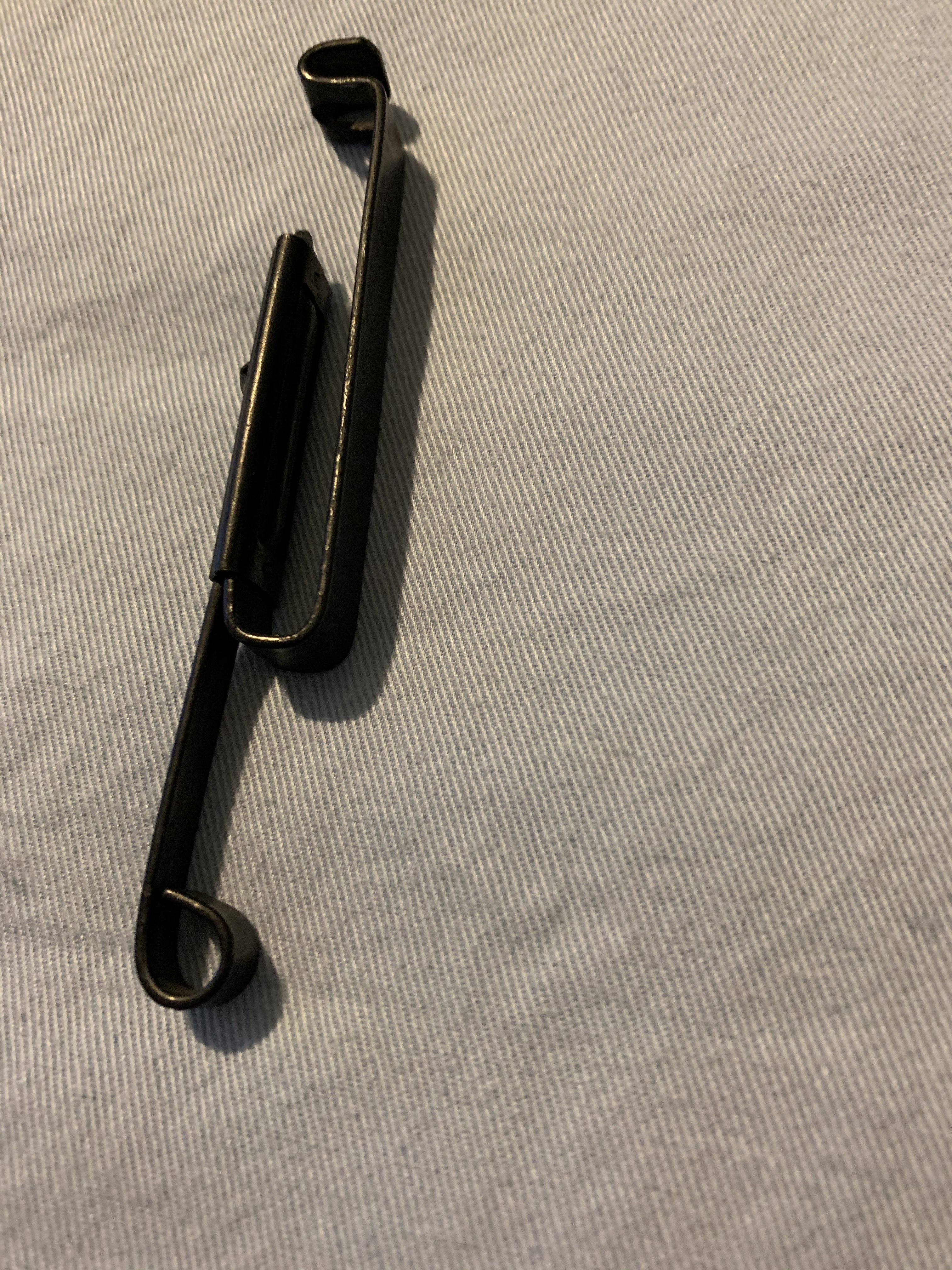 This is an ALICE clip used to attach military equipment to belts it is called an ALICE clip cause it is usually used with ALICE equipment